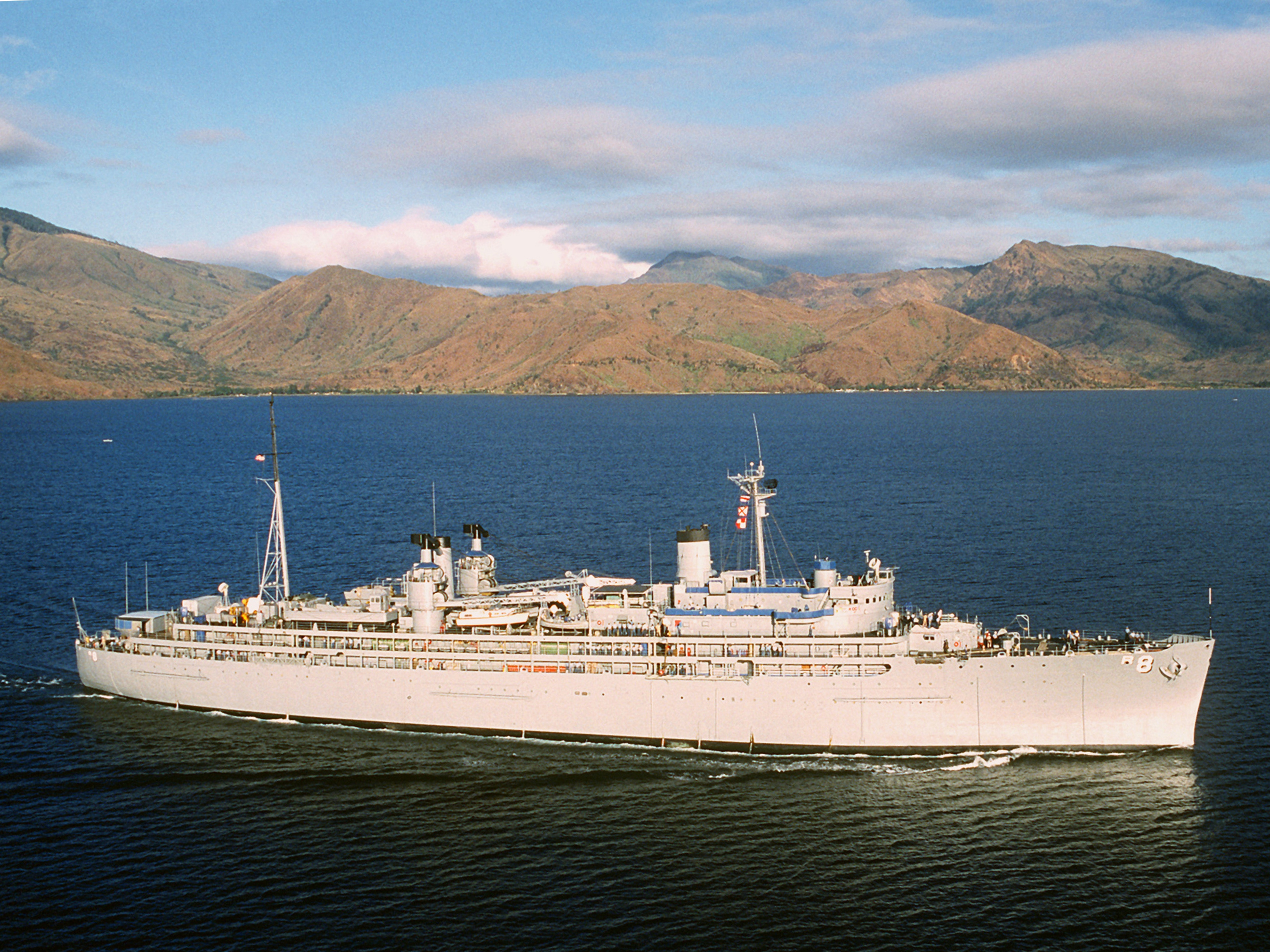 The U.S. Navy repair ship USS Jason (AR-8) underway in Subic Bay, Philippines, in 1993.